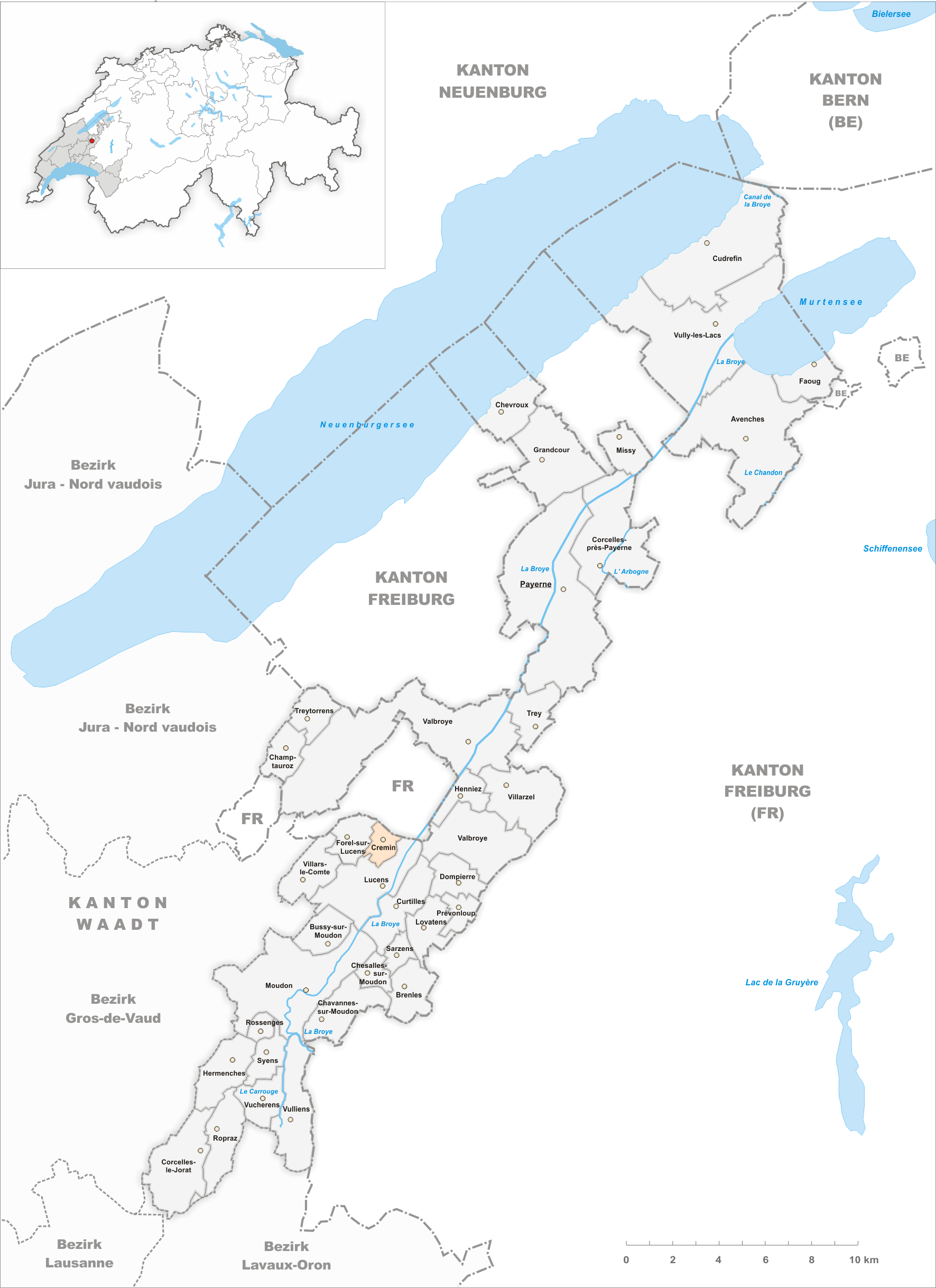 Municipality Cremin